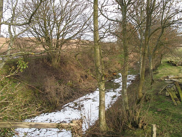 Newburgh and North Fife Railway An alternative southern route between Perth and Dundee. It was used by the North British Railway, the more direct route north of the Tay belonged to the rival Caledonian Railway. Much of the trackbed has gone now, returned to farmland, but this cutting is still pretty obvious.